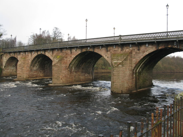 Bothwell Bridge A rather choppy River Clyde flowing under the bridge.